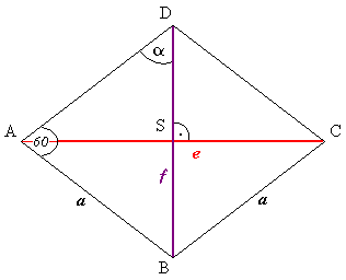 The angle is bluntly much greater than 60°. Moreover, two arcs have their centers situated at random, not in the rhombus’s vertices.